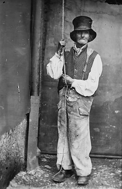 1 negative : glass, wet collodion, b&w ; 11 x 16.5 cm.